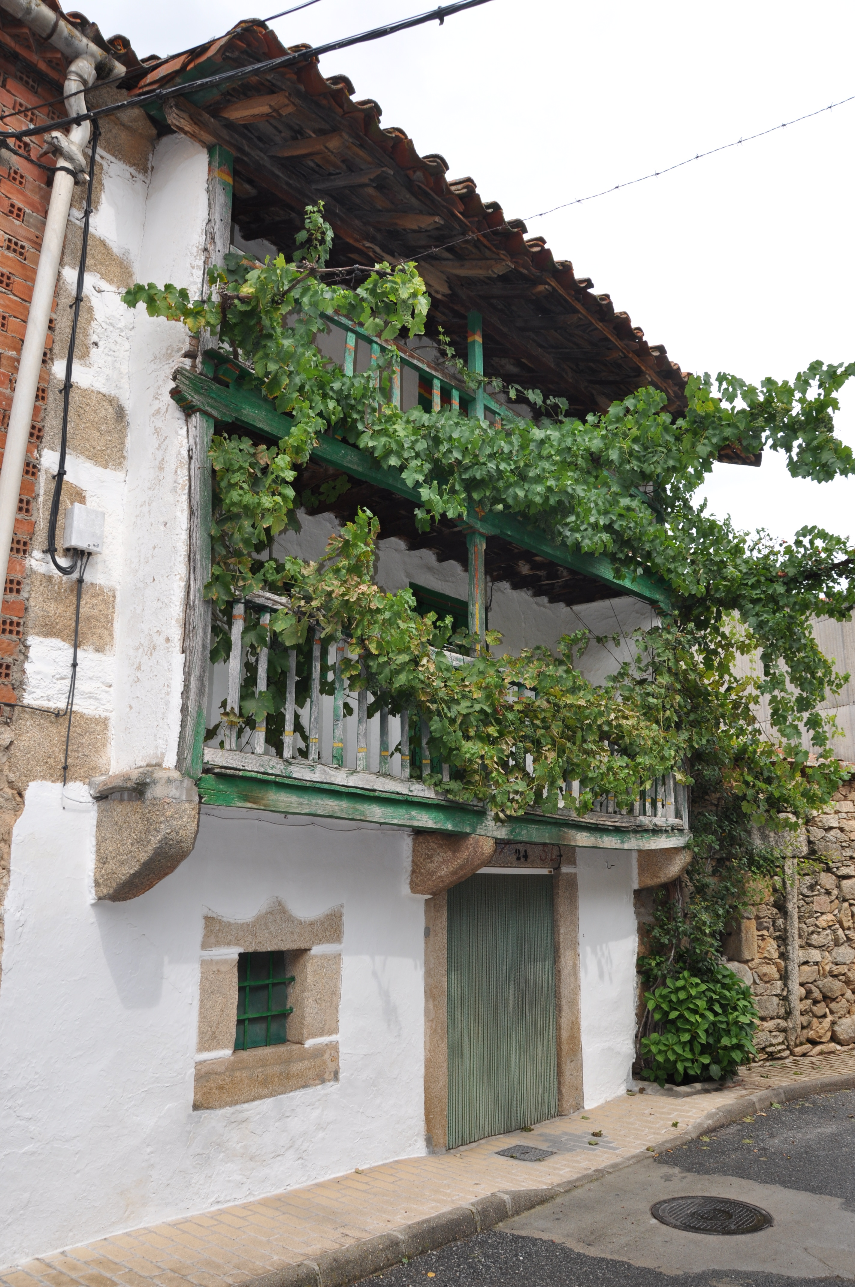 Traditional house with grapevine in Tormellas, Ávila, Spain